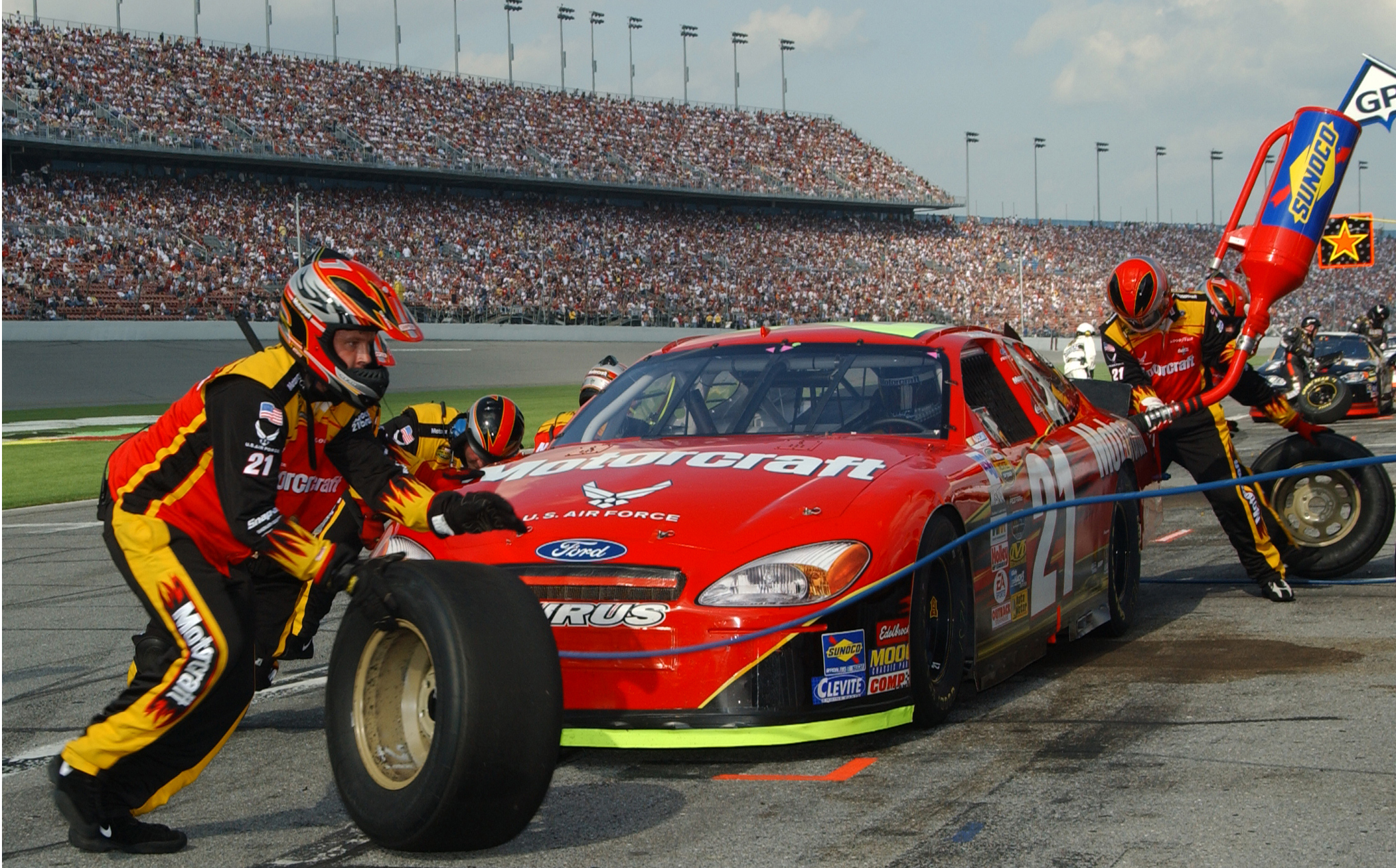 Andy Silver, front tire Changer on the #21 Motorcraft/Air Force Wood Brothers Racing Ford Taurus pushes the Right Front Tire to Pit Wall after a Four Tire Change